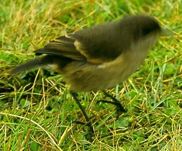 Alpine Chats, Cercomela sordida, are found in the Afro-Alpine zone of Mount Kenya. They are very bold.